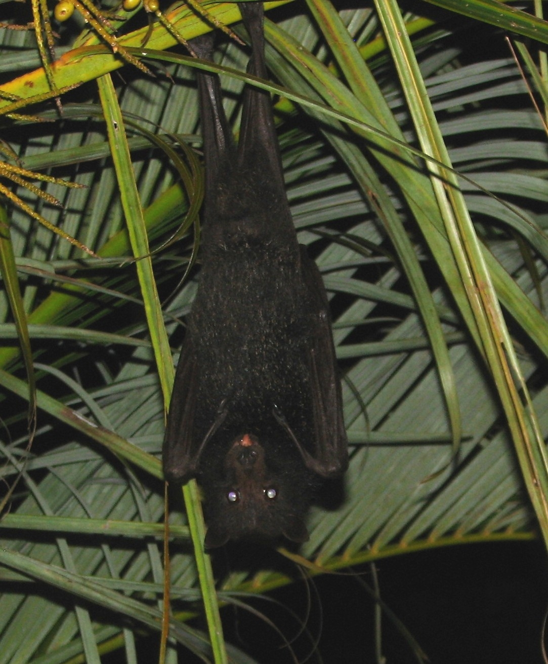 Flying fox, also known as a fruit bat, are a common sight in Central Queensland, as well as Lake Awoonga